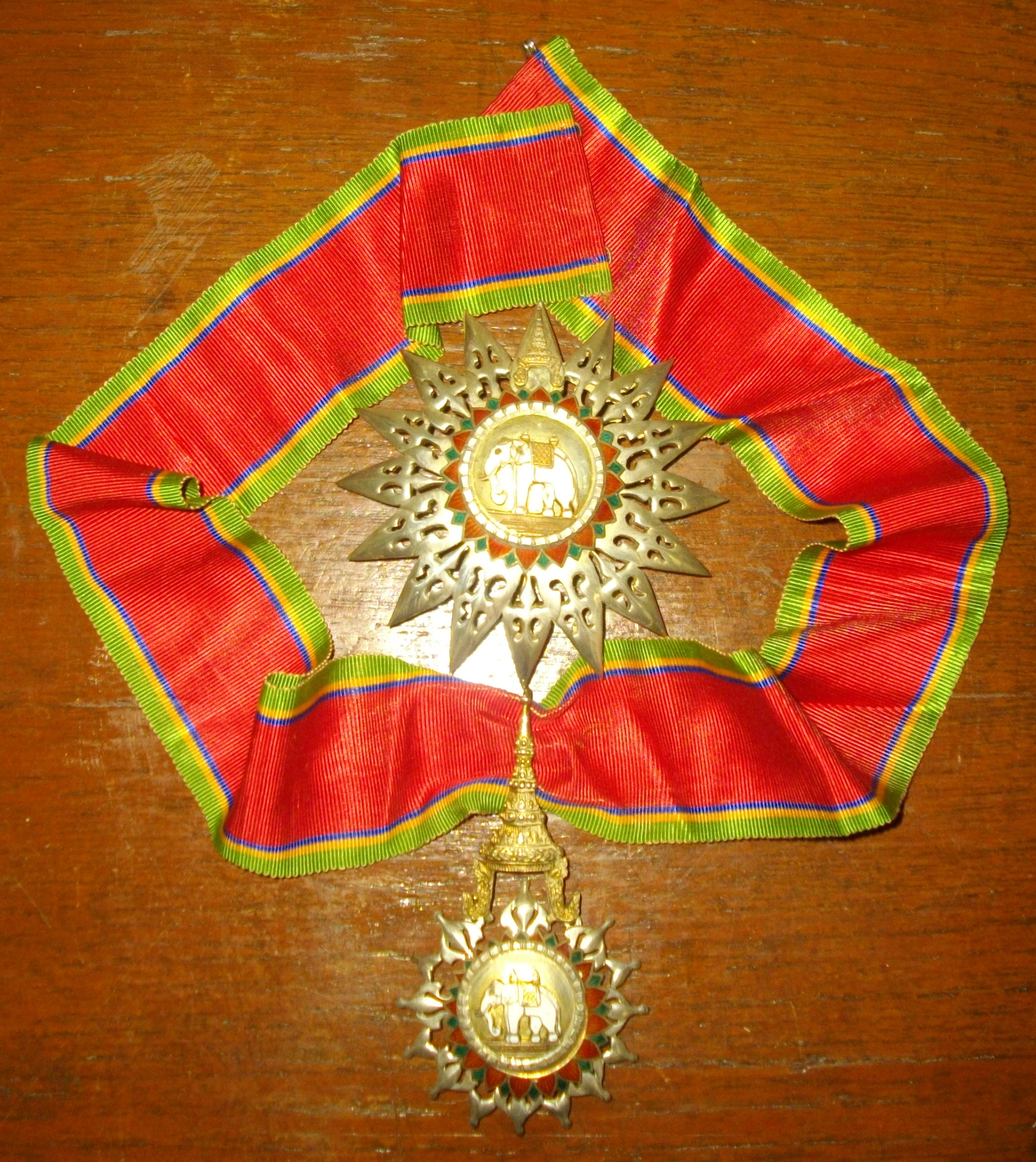 Knight Commander of the Most Exalted Order of the White Elephant, photo by the uploader.